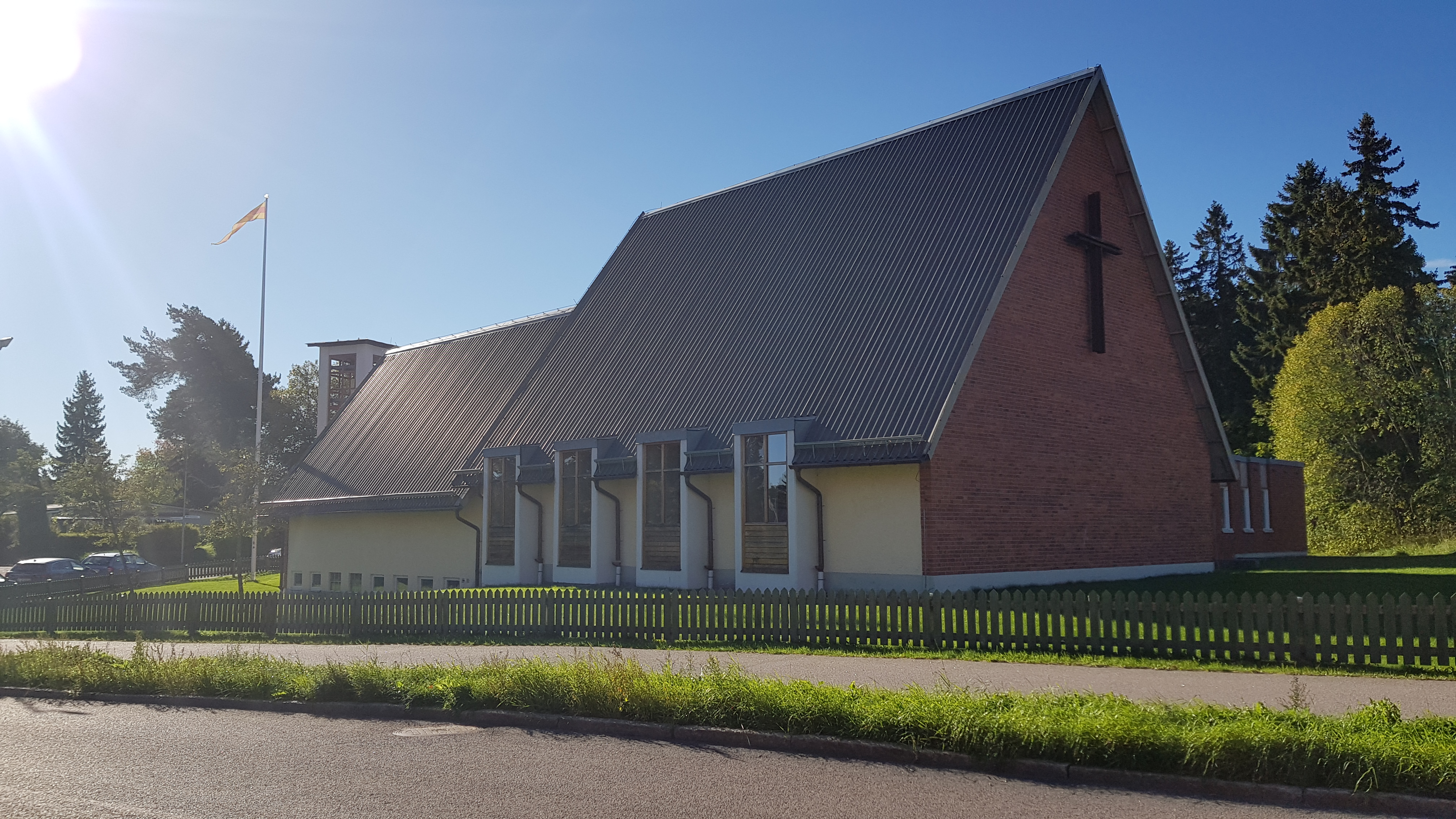 The Tomas Church i Gävle